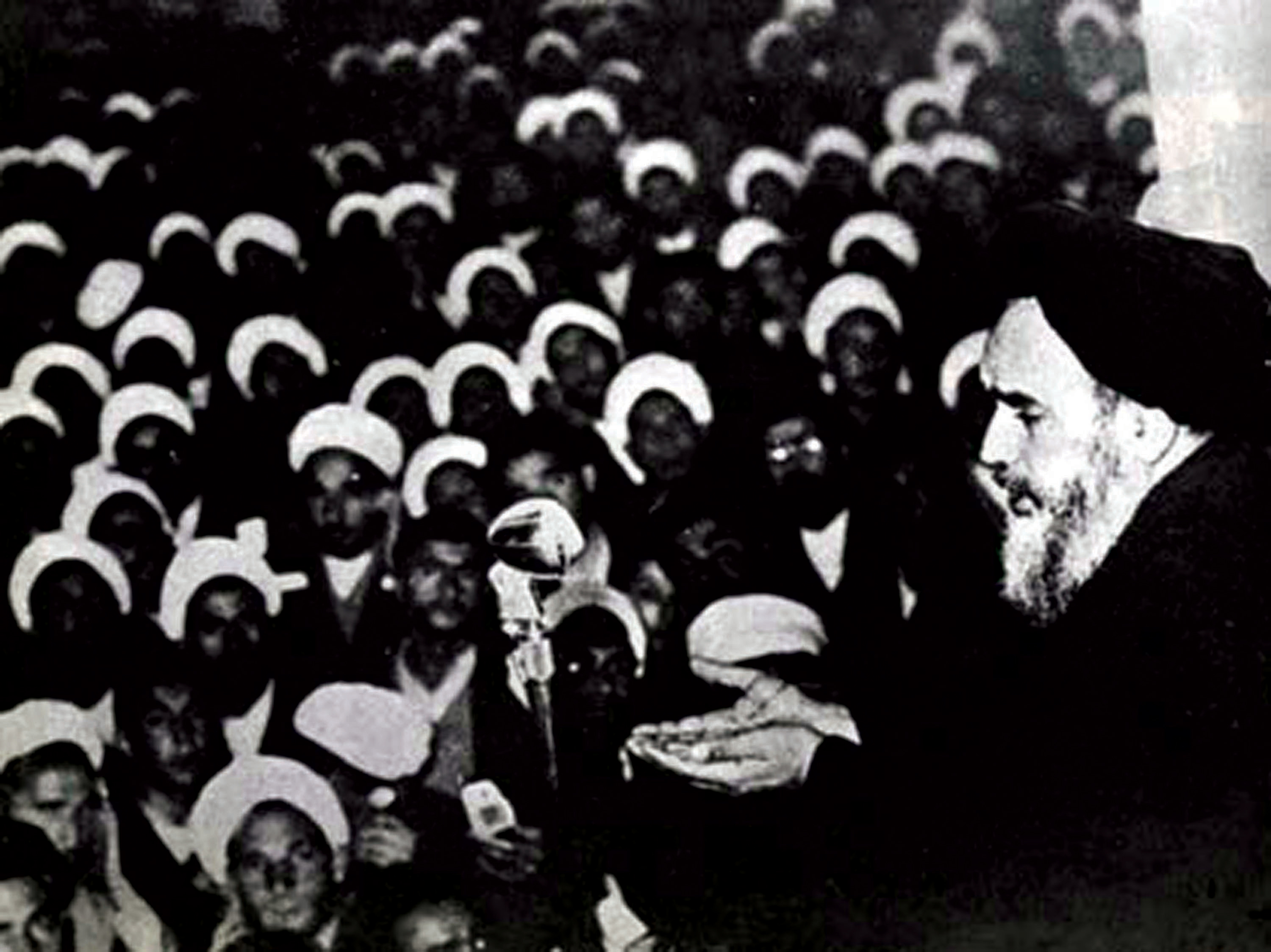 June 3, 1963 speech by Rohullah Khomeini - Feyziyeh School, Qom